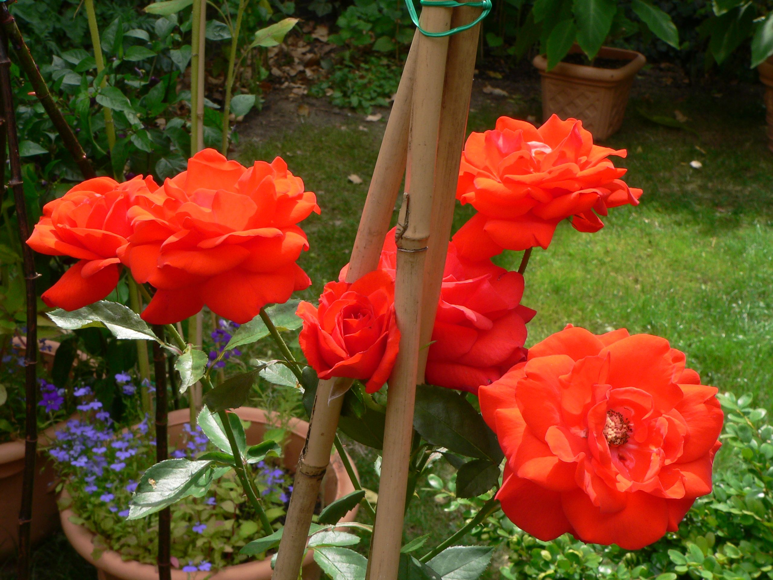 Rosa 'Ave Maria', Kordes 1981